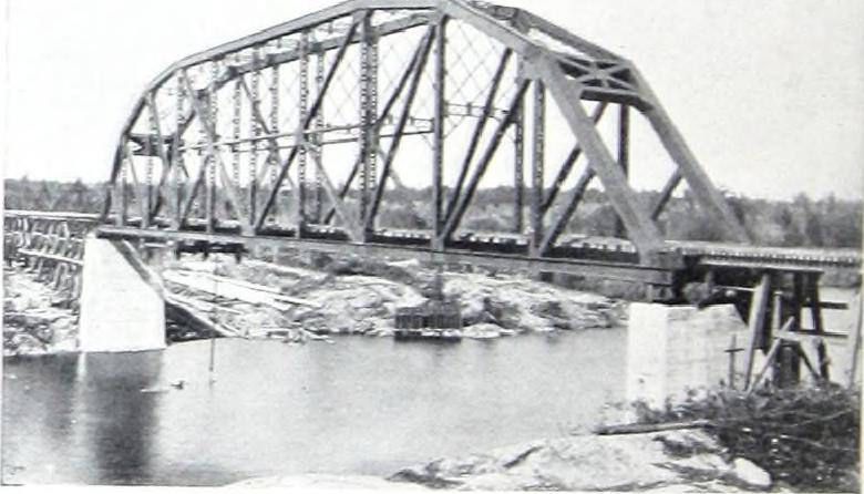 Identifier: OurProduct Title: Our Product Year: 1907 (1900s) Authors: Canada Foundry Company Subjects: Division 05 Metals Structural Metal Framing Division 41 Material Processing and Handling Equipment Cranes and Hoists Mobile Plant Equipment Batching Equipment Division 43 Process Gas and Liquid Handling Purification and Storage Equipment Gas Handling Equipment Division 13 Special Construction Fountains prospectus railroad equipment rail vehicles wrecking cranes steam boilers concrete machinery air compressors structural steel Publisher: Canada Foundry Company Text Appearing Before Image: 50 Ton Electric Locomotive Text Appearing After Image: C.N.R. Bridge over Pickerel River, Ont